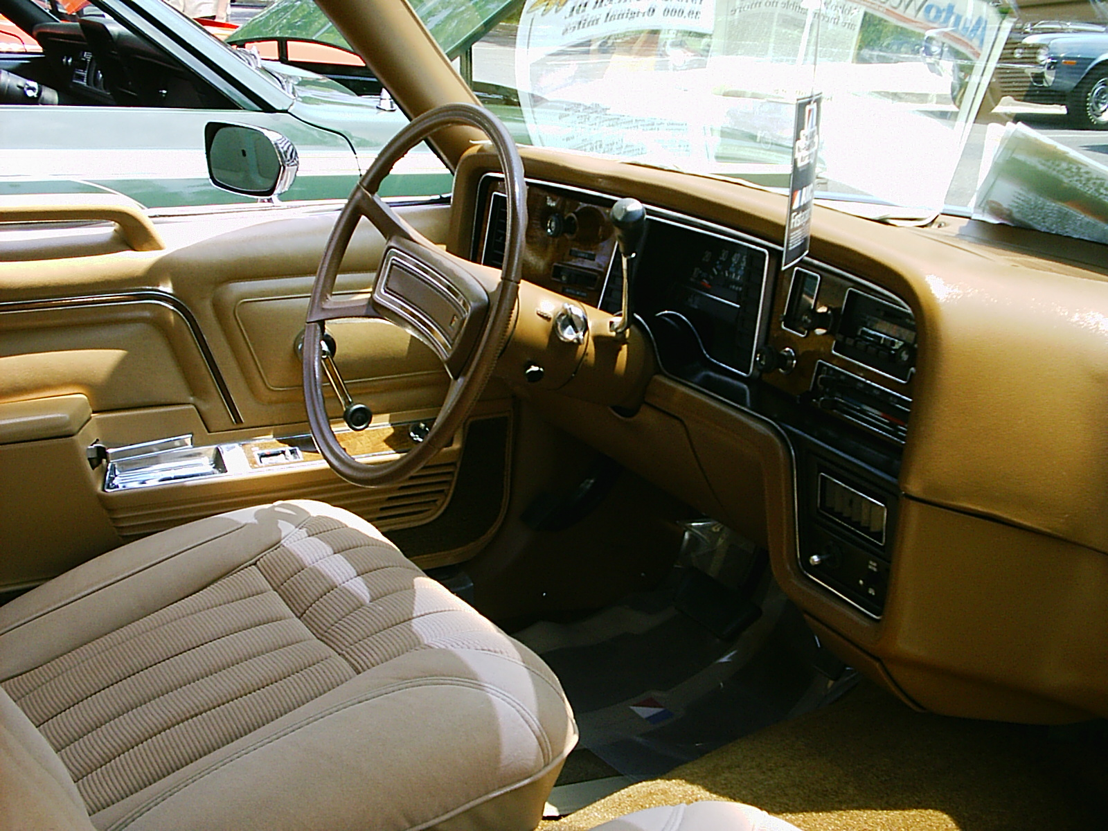 Interior view in a 1979 AMC Pacer coupe, an innovative compact-sized car built by American Motors Corporation. This is an unmolested (factory original) D/L model with the standard D/L upholstery trim. Picture taken at the AMCRC (AMC Rambler Club) car show that was held in Gaithersburg, Maryland, USA.